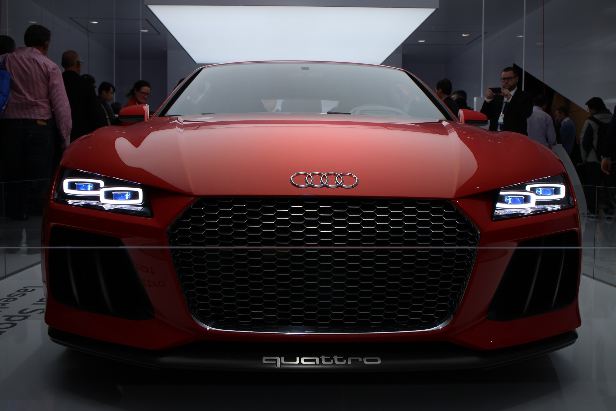 Virtual Cockpit of the new Audi TT, MMI Touch, conceptual Laserlights, zFAS Sensor Motherboard in early alpha and beta status, the Audi CEO Rupert Stadler and his head of electronics development Ricky Hudi